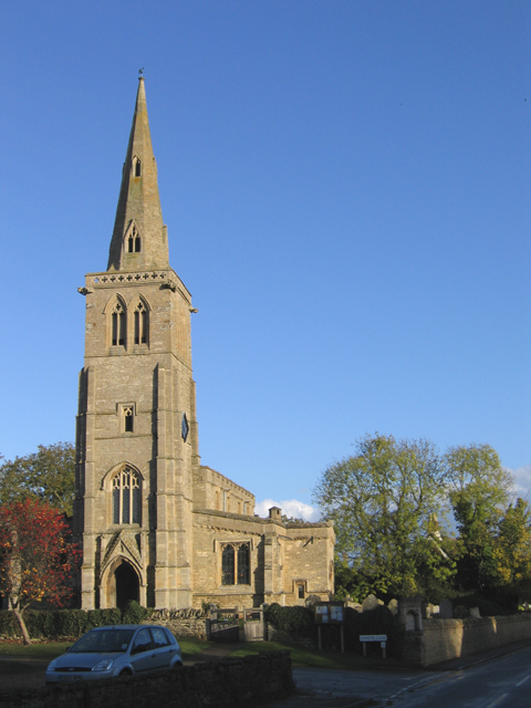 Parish church of St Nicholas, Swineshead, Beds A mid-14th century building of the Decorated period at the corner of Sandye Lane and the High Street.